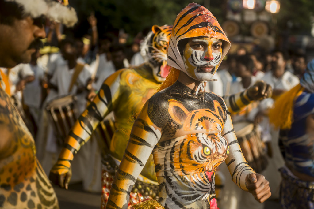 Pulikali, is a cultural street perfomance during Onam where people dress up like tiger,leopard and lion. Above is a female Pulikali perfomar with her male colleagues celebrating the festival of Onam in Kerala.